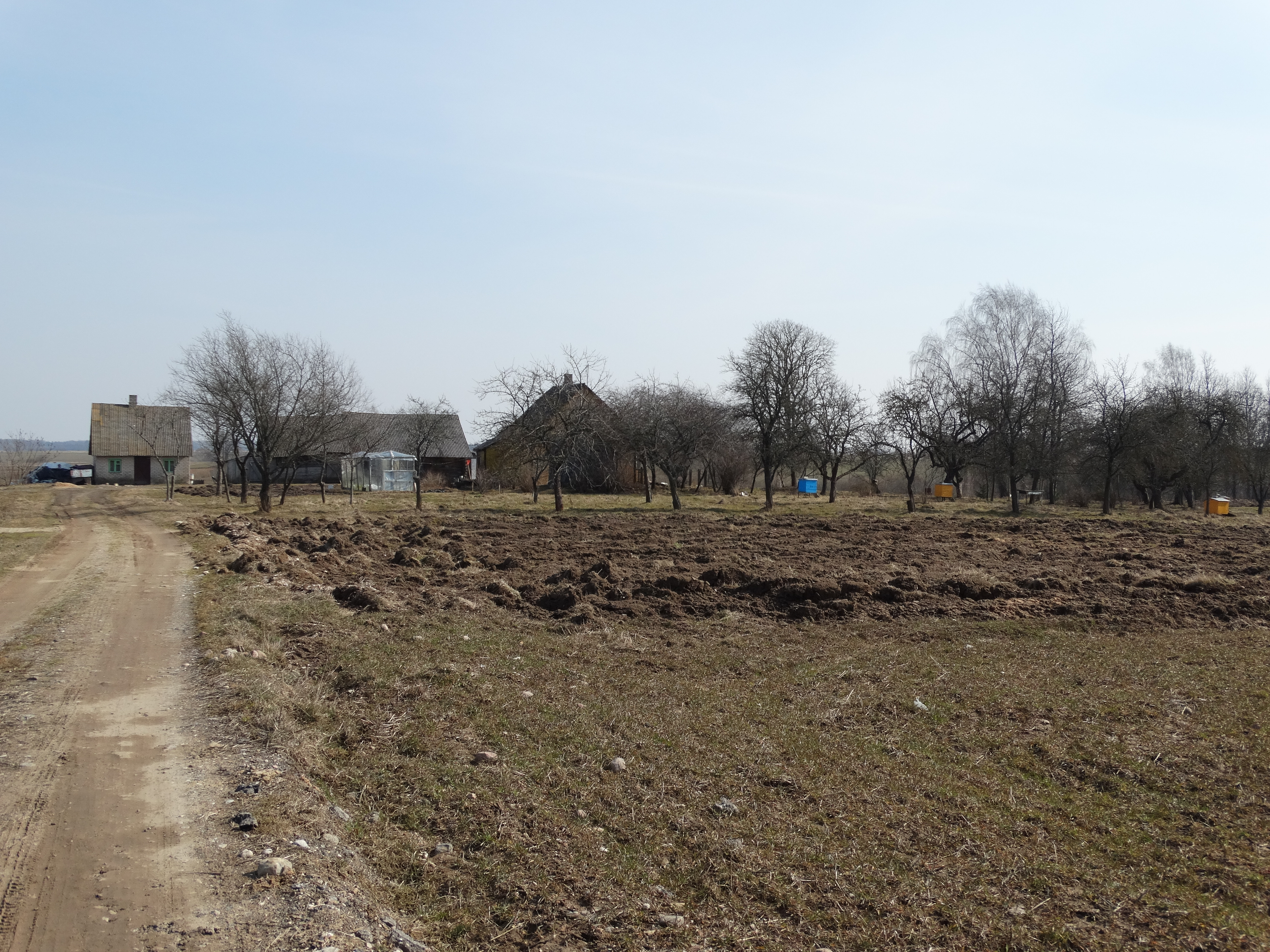 Antakalnis I, Ukmergė district, Lithuania